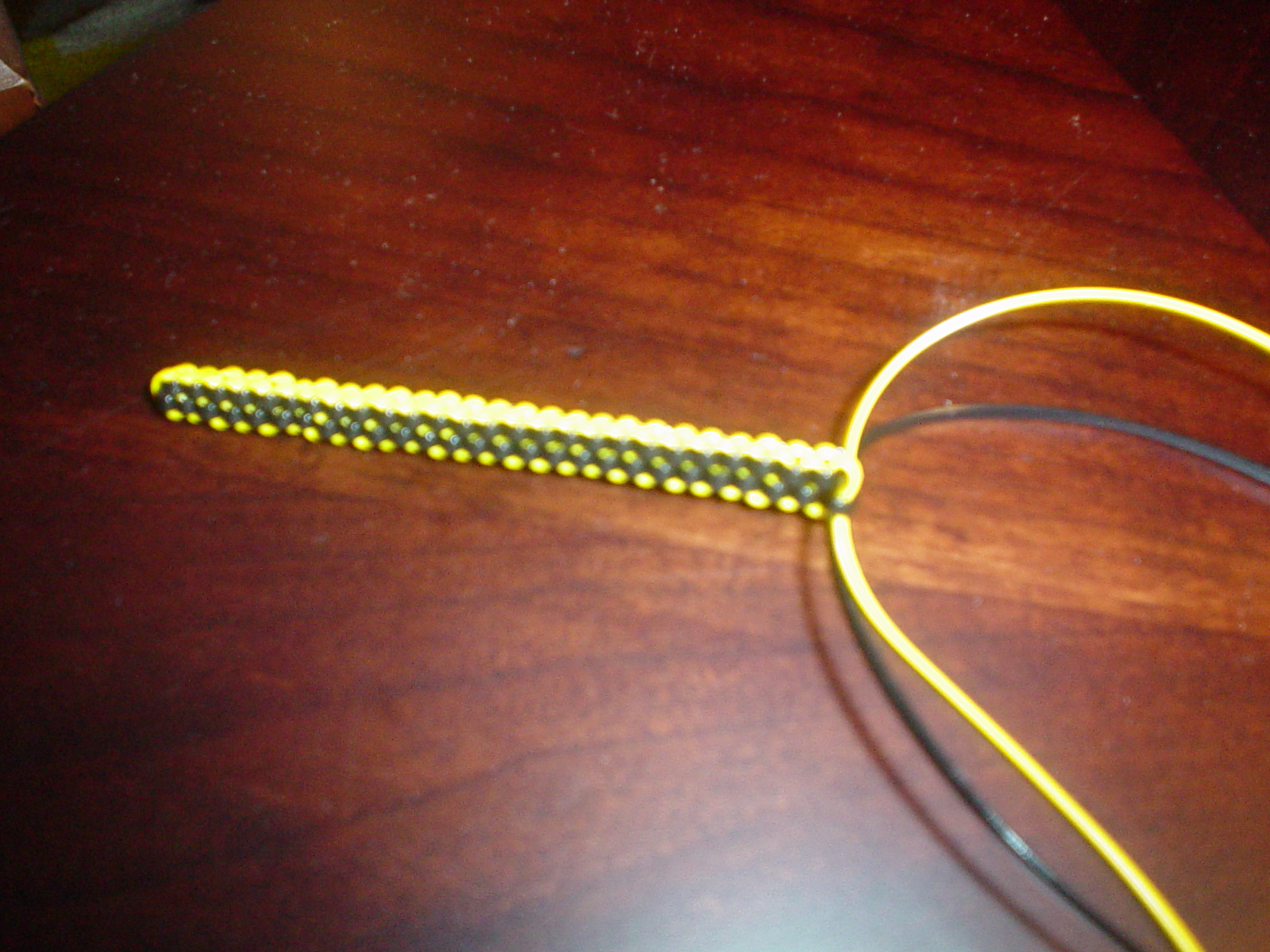 An example of a square stitch keychain - scoubidou